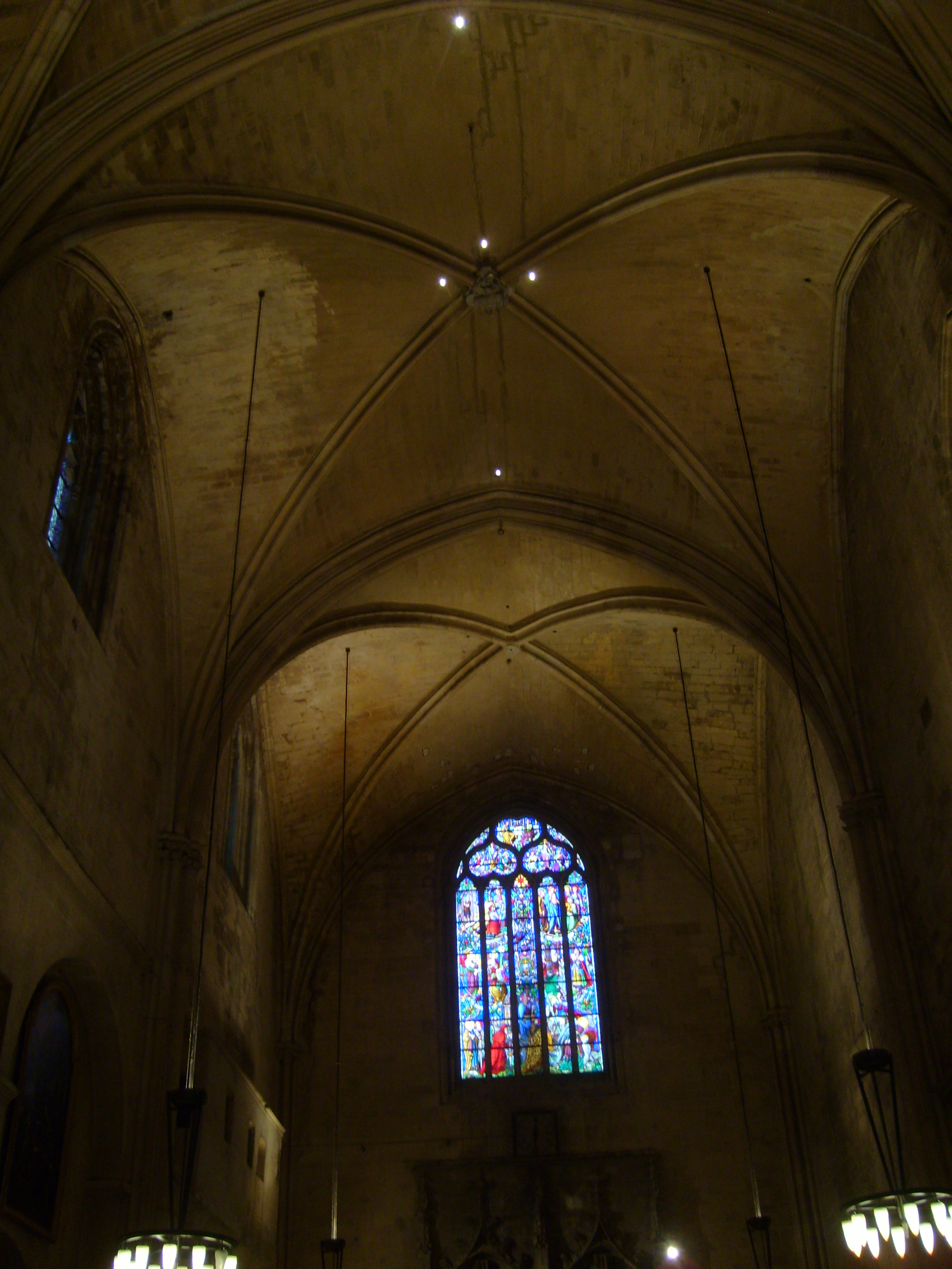 Stained glass window "the Triumph of the Faith", west facade, Saint Savior's cathedral, Aix-en-Provence, Bouches-du-Rhône (France).